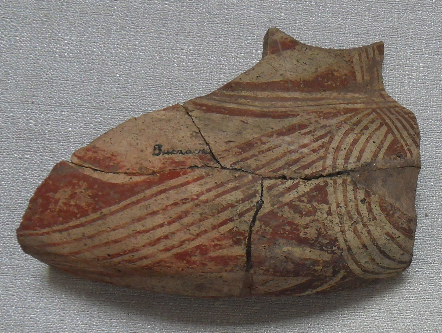 Piece of pottery found in Buczacz (Boutchach, Buchach), Ukraine — Institut de paléontologie humaine, Paris, France.